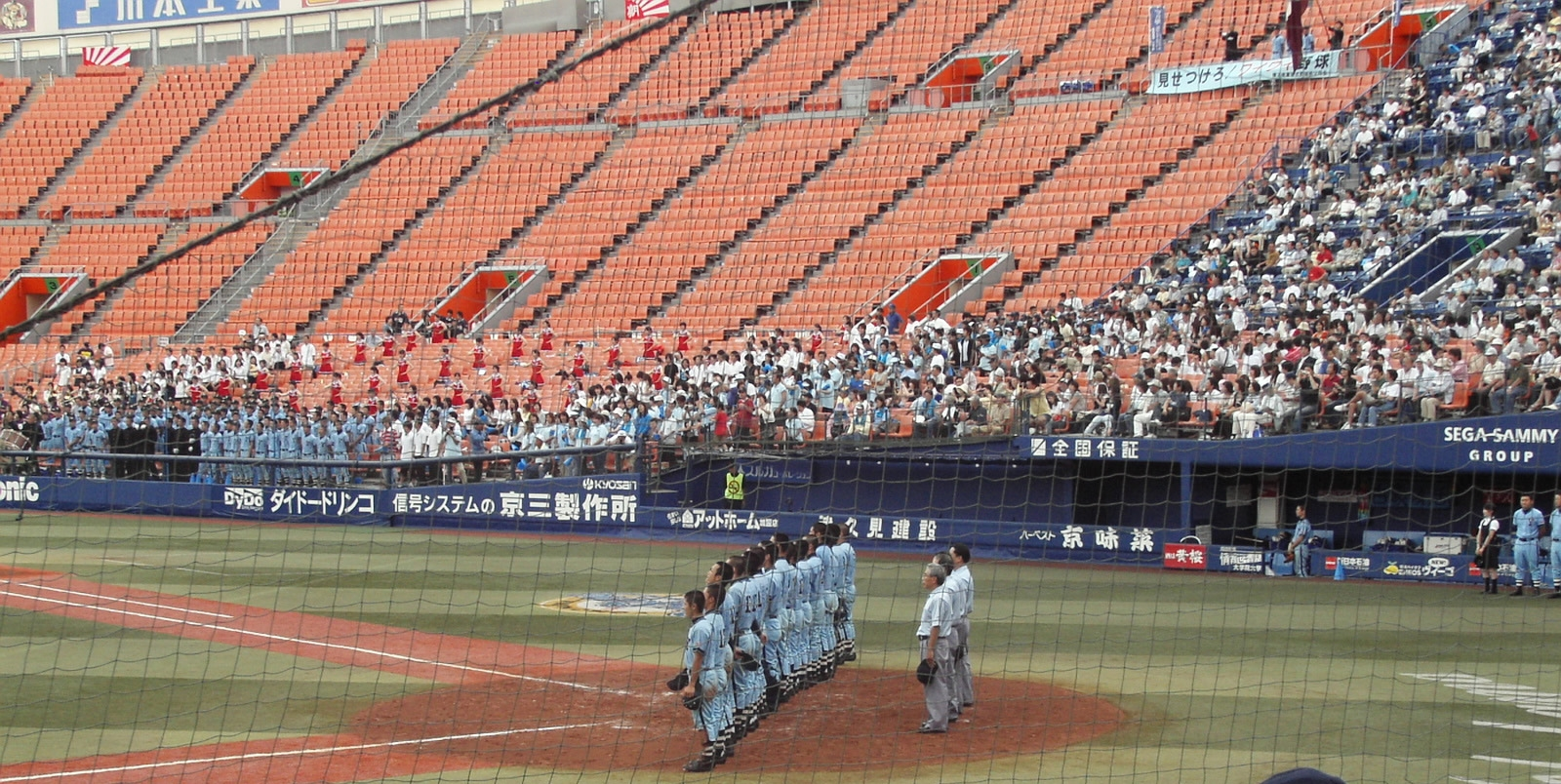 High_school_baseball_in_Yokohama Stadium “Yokohama Commercial High School”